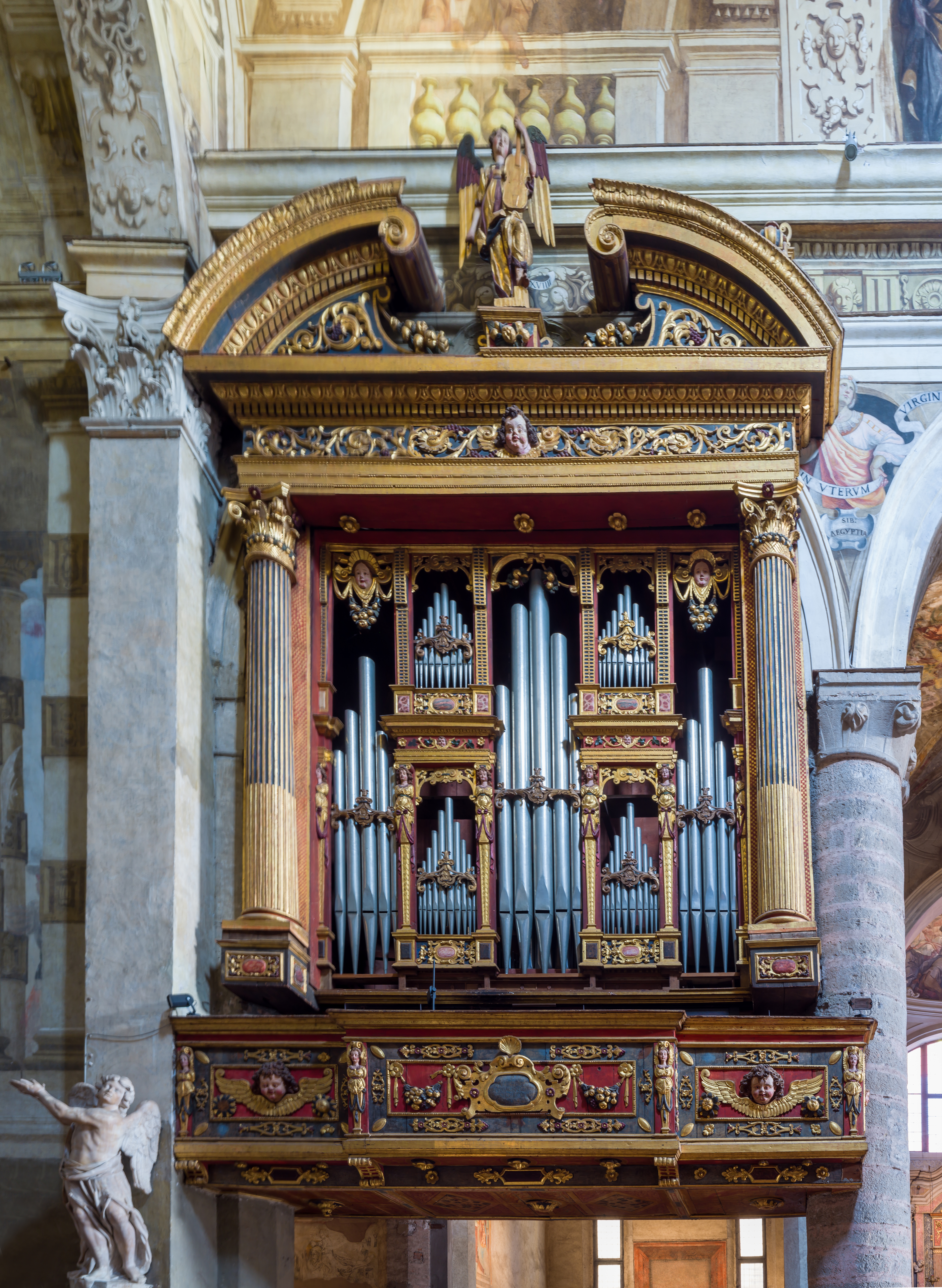 Pipe organ Antegnati in the Santa Maria del Carmine church in Brescia.